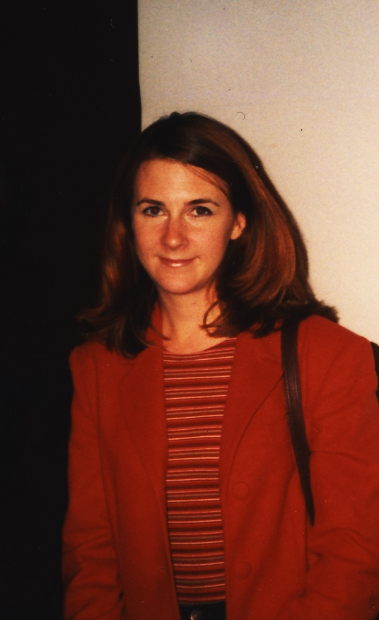 a former reporter for MTV News